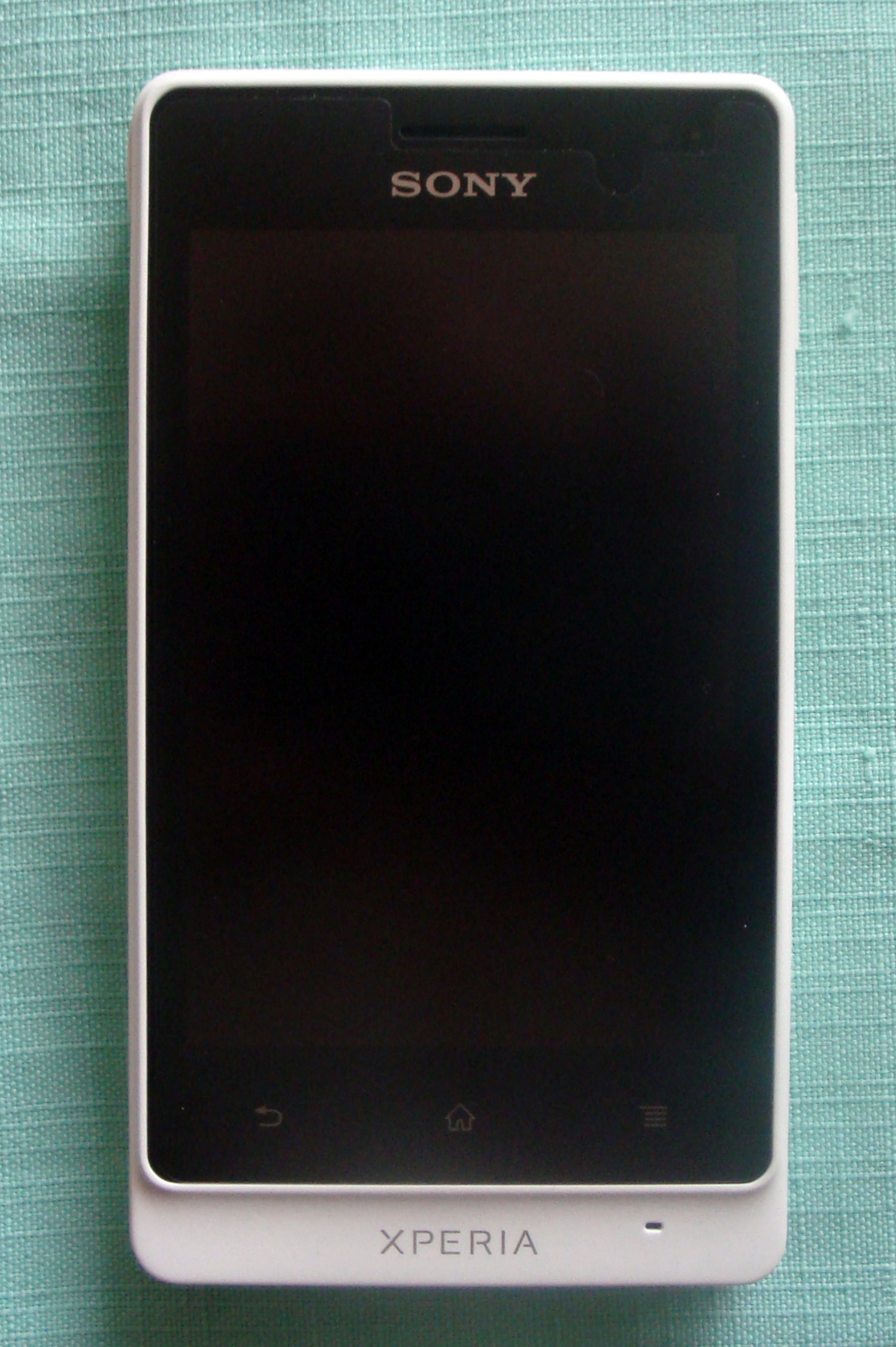 Photo of a white Sony Xperia Go.